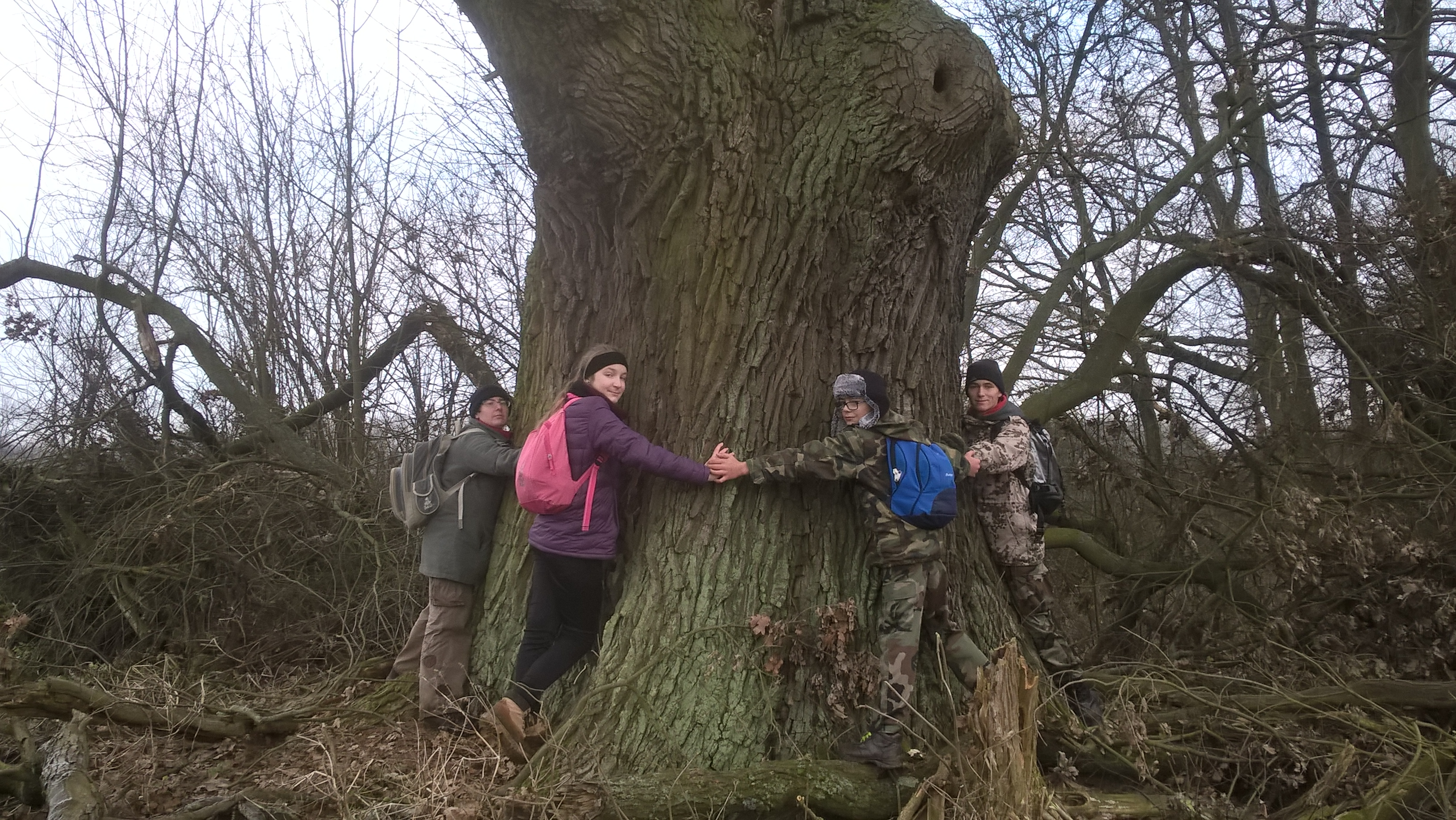 Natural Monument growing in the municipality of Szprotawan near Borowina, Poland